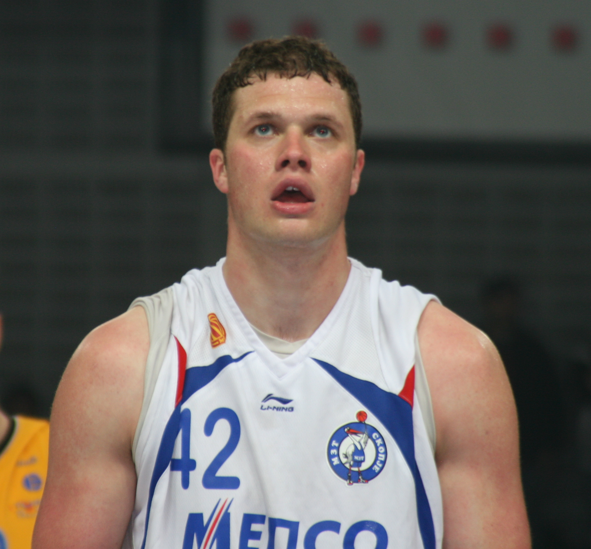 Далман